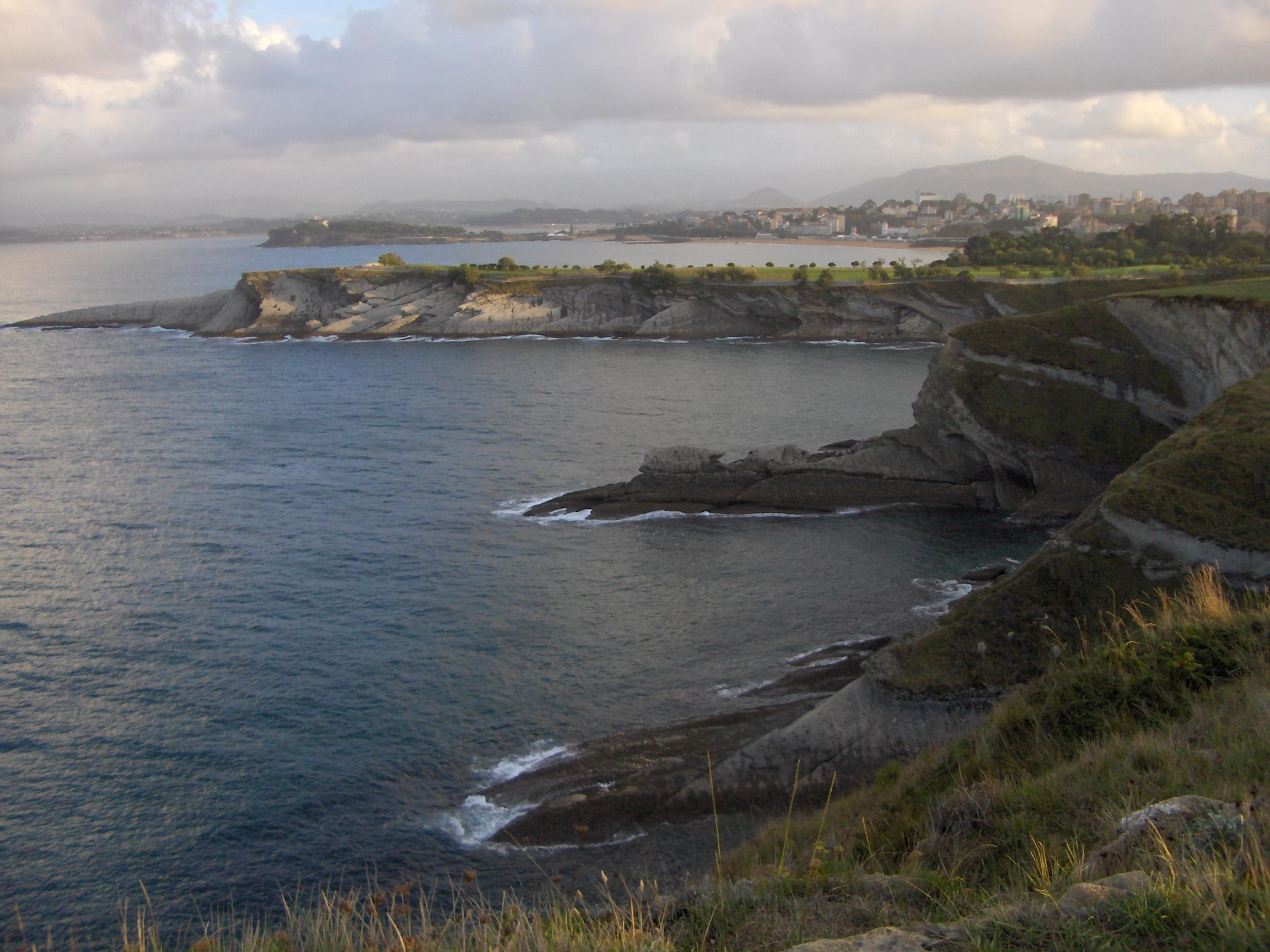 Image from Cabo Mayor (Santander, España)